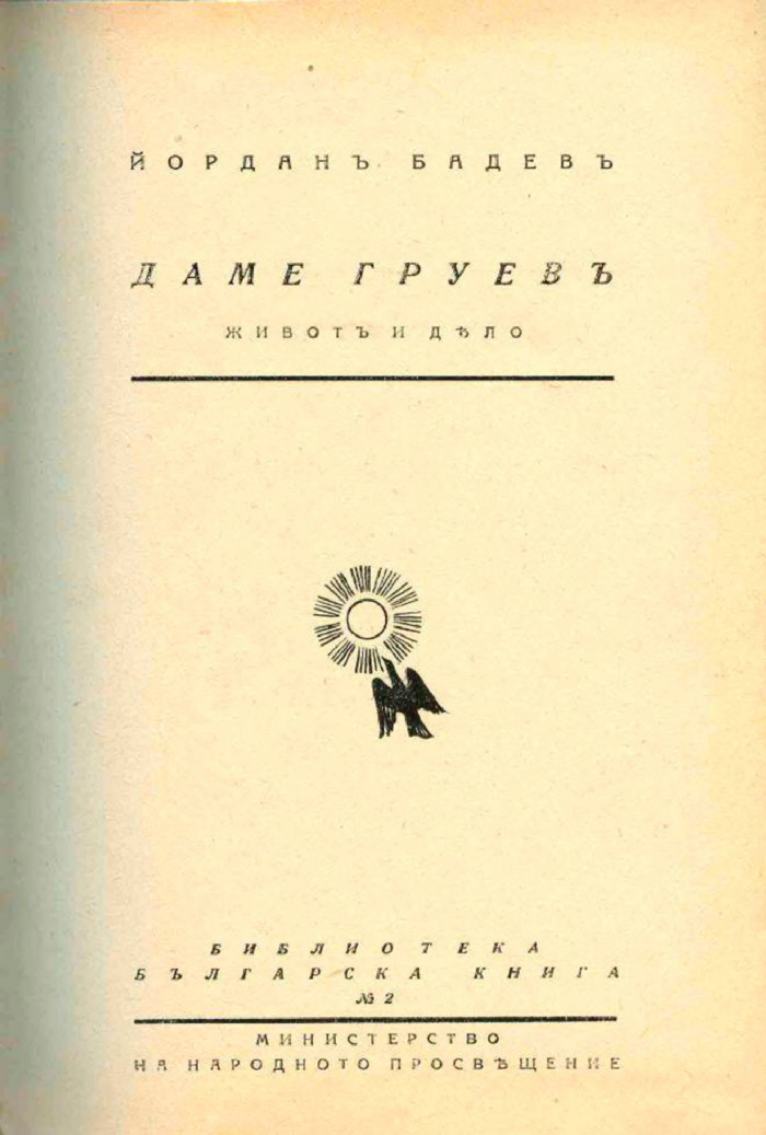 Dame Gruev